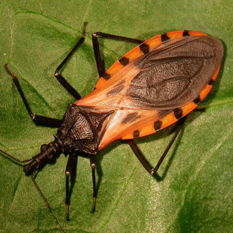 Photograph showing an adult specimen of Triatoma dimidiata from Colombia.